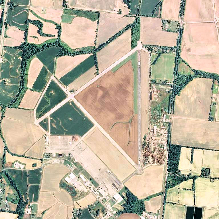 USGS digital orthophoto of Arnold Field, an airport in Tennessee, United States